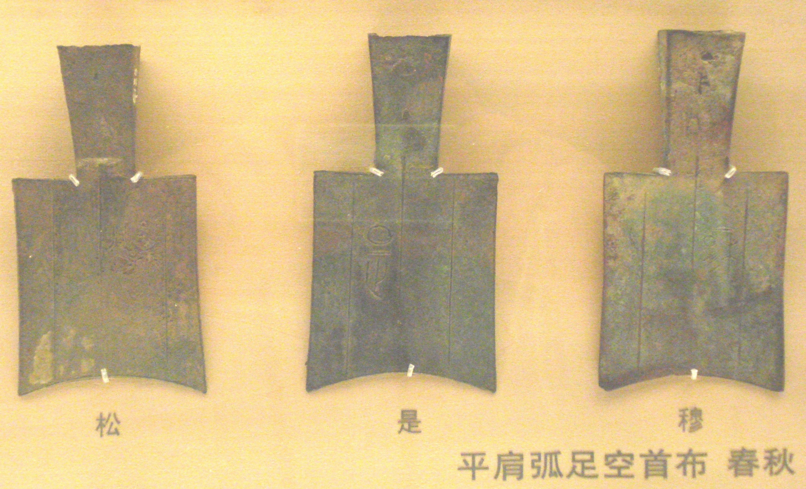 Shanghai Museum: old Chinese coins